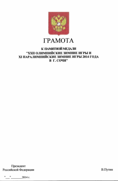 Commemorative medal XXII Olympic Winter Games and XI Paralympic Winter Games 2014 in Sochi (diploma)